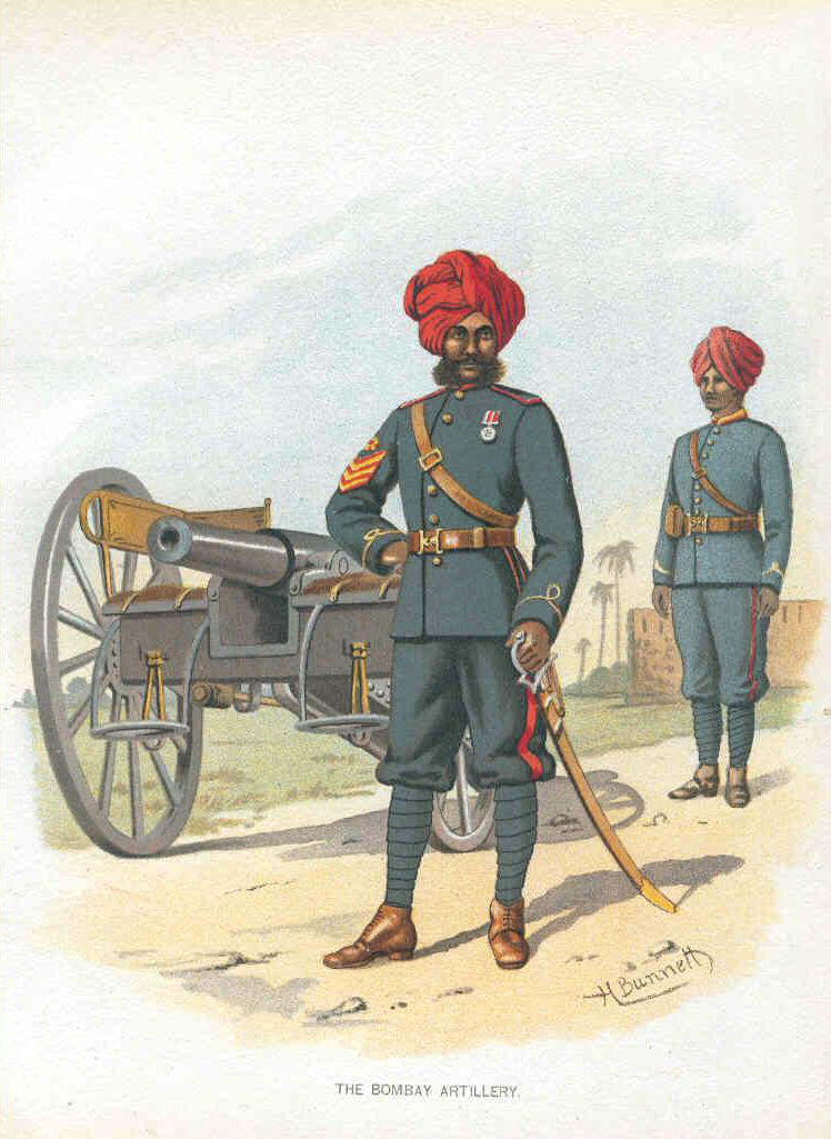 The Bombay Artillery. Chromolithograph by Henry Bunnett (1845–1910) ca 1890.